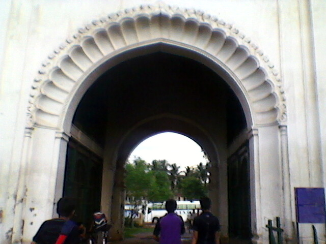 The south gate of the Hazarduari Palace in Murshidabad, India.